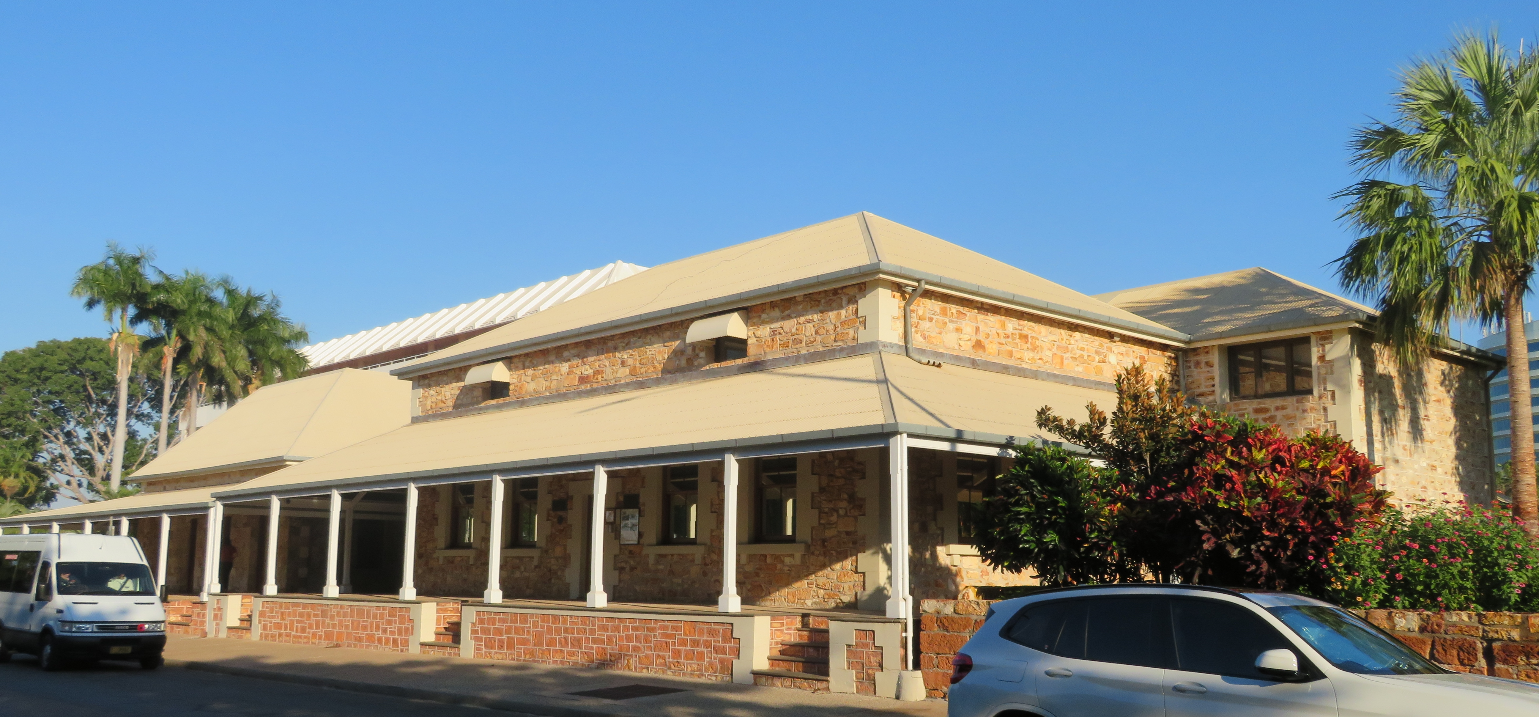 Former Law Court and Police Station, Darwin, Australia